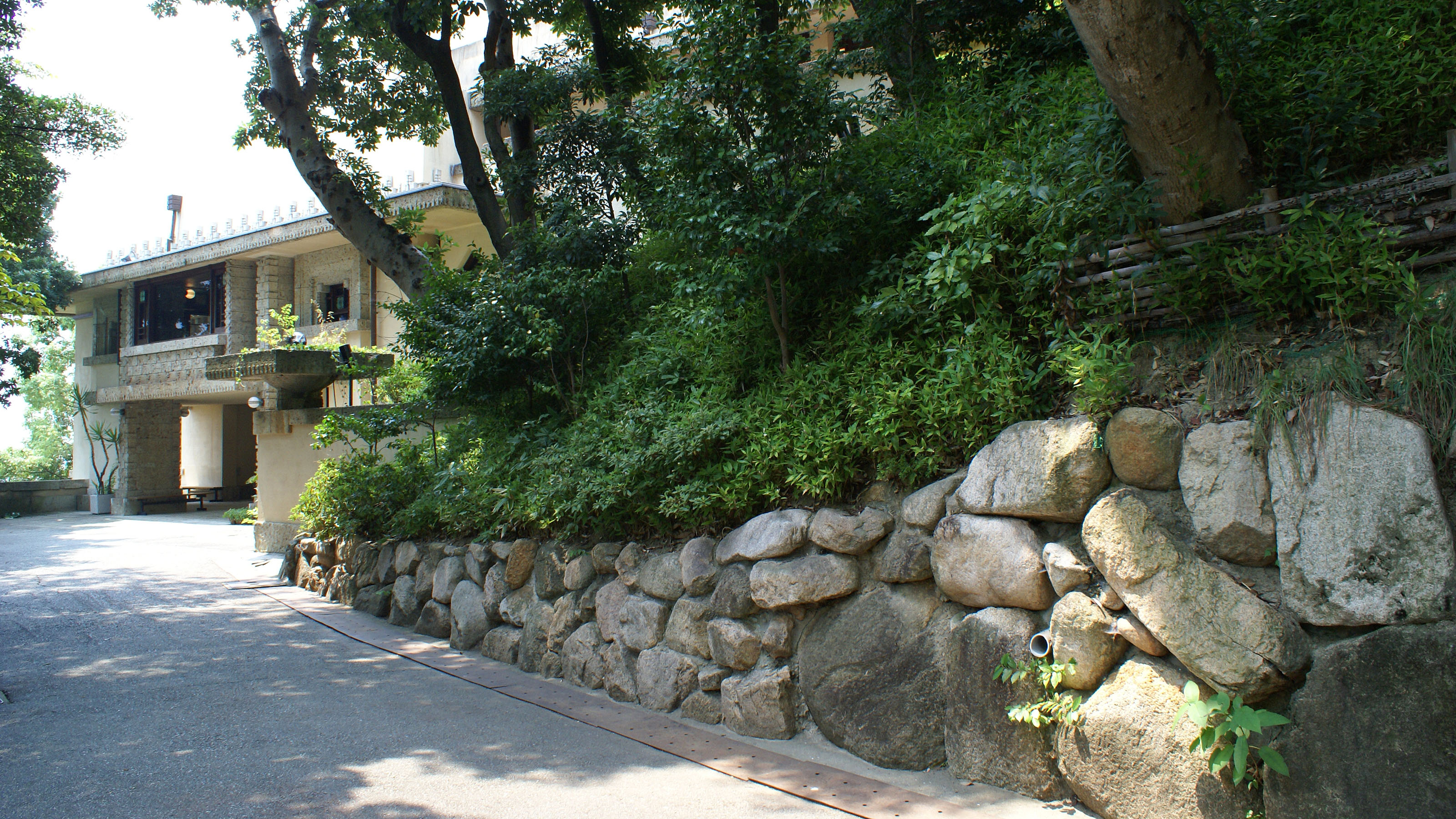 Yodoko Guest House in Ashiya, Hyogo, Japan